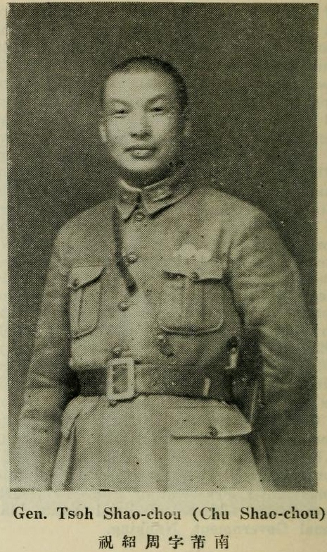 Zhu Shaozhou (Chu Shao-chou; Tsoh Shao-chou) (1893 - 1976)